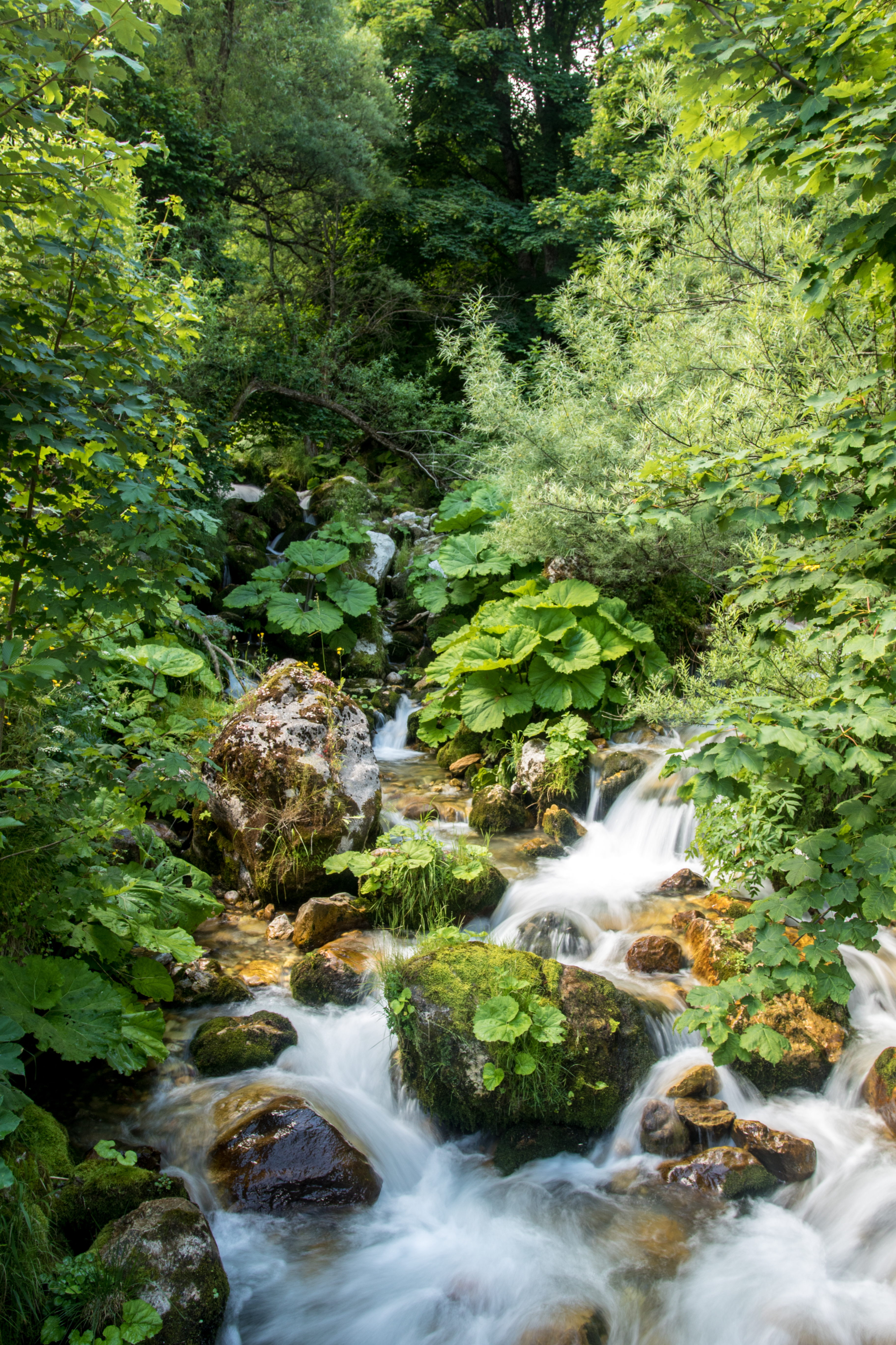 Garska River in the village Gari